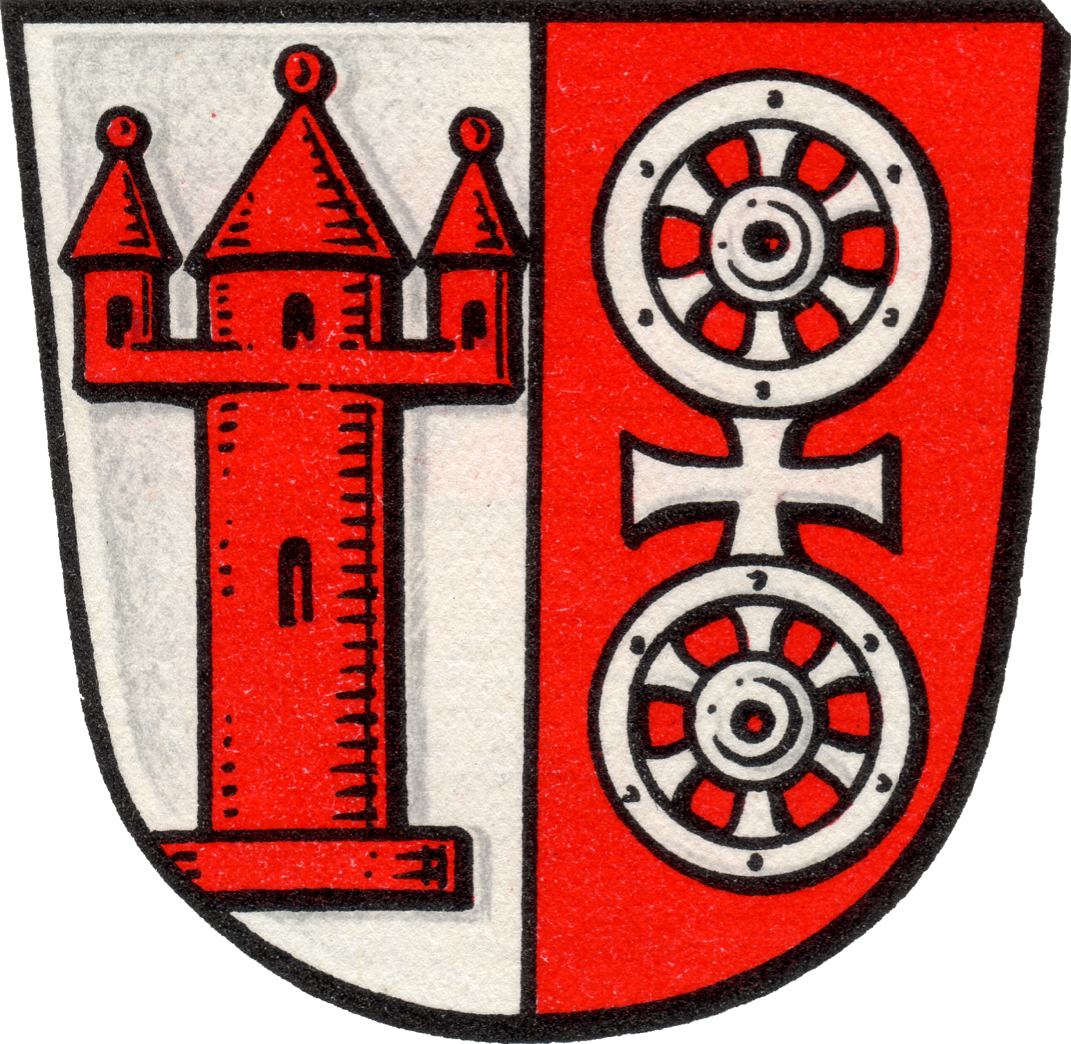 Coat of Arms of Kiedrich